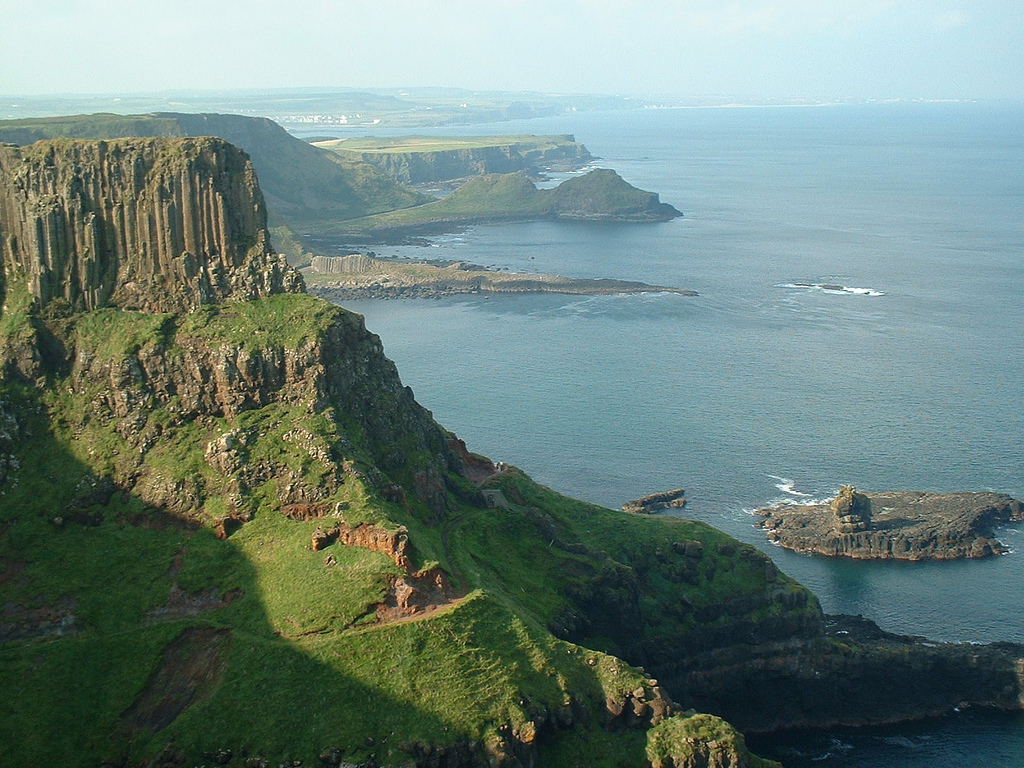 Causeway Coast, Antrim, Northern Ireland. View looking west towards Giant's Causeway.